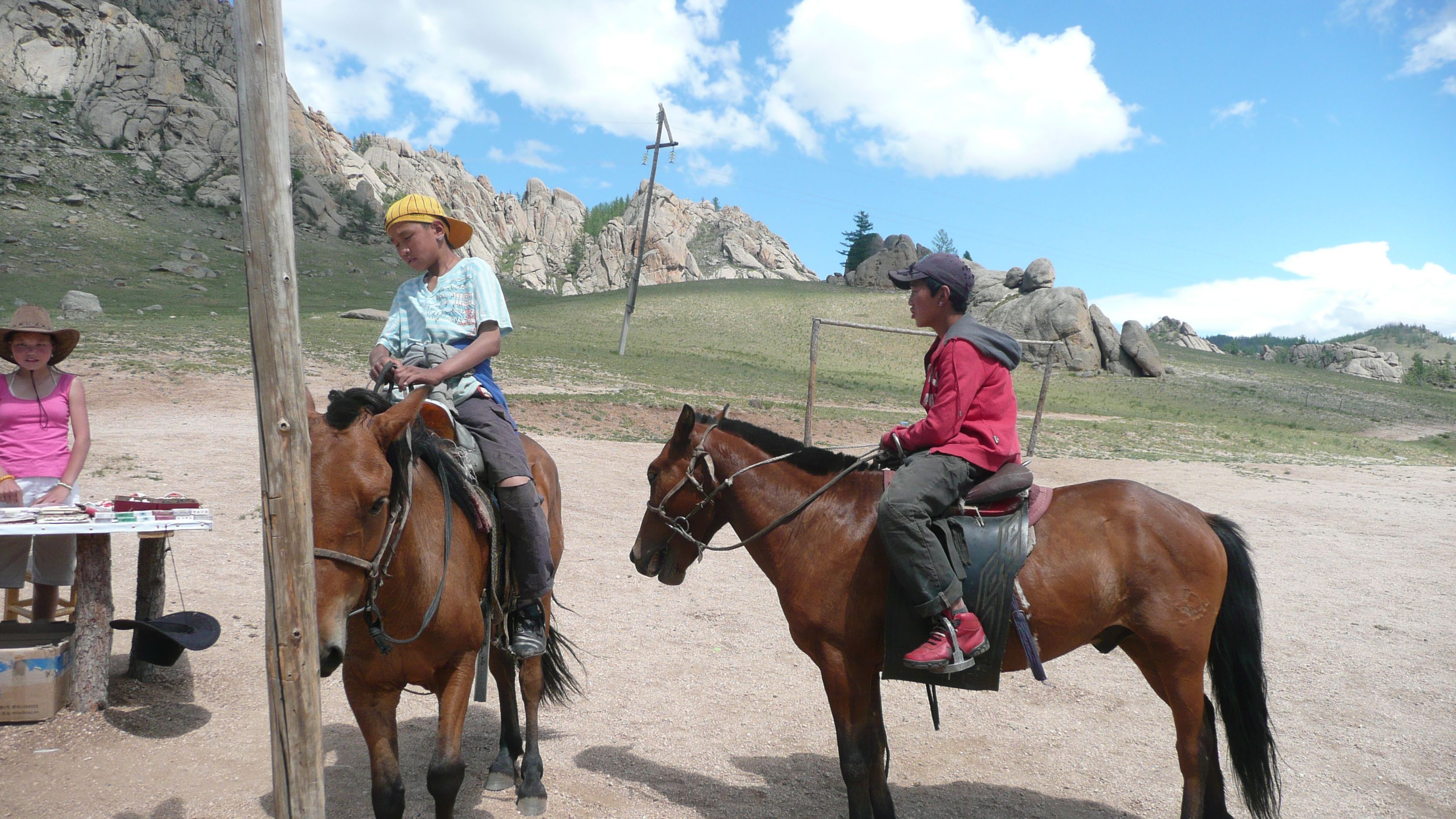 Gorkhi-Terelj National Park